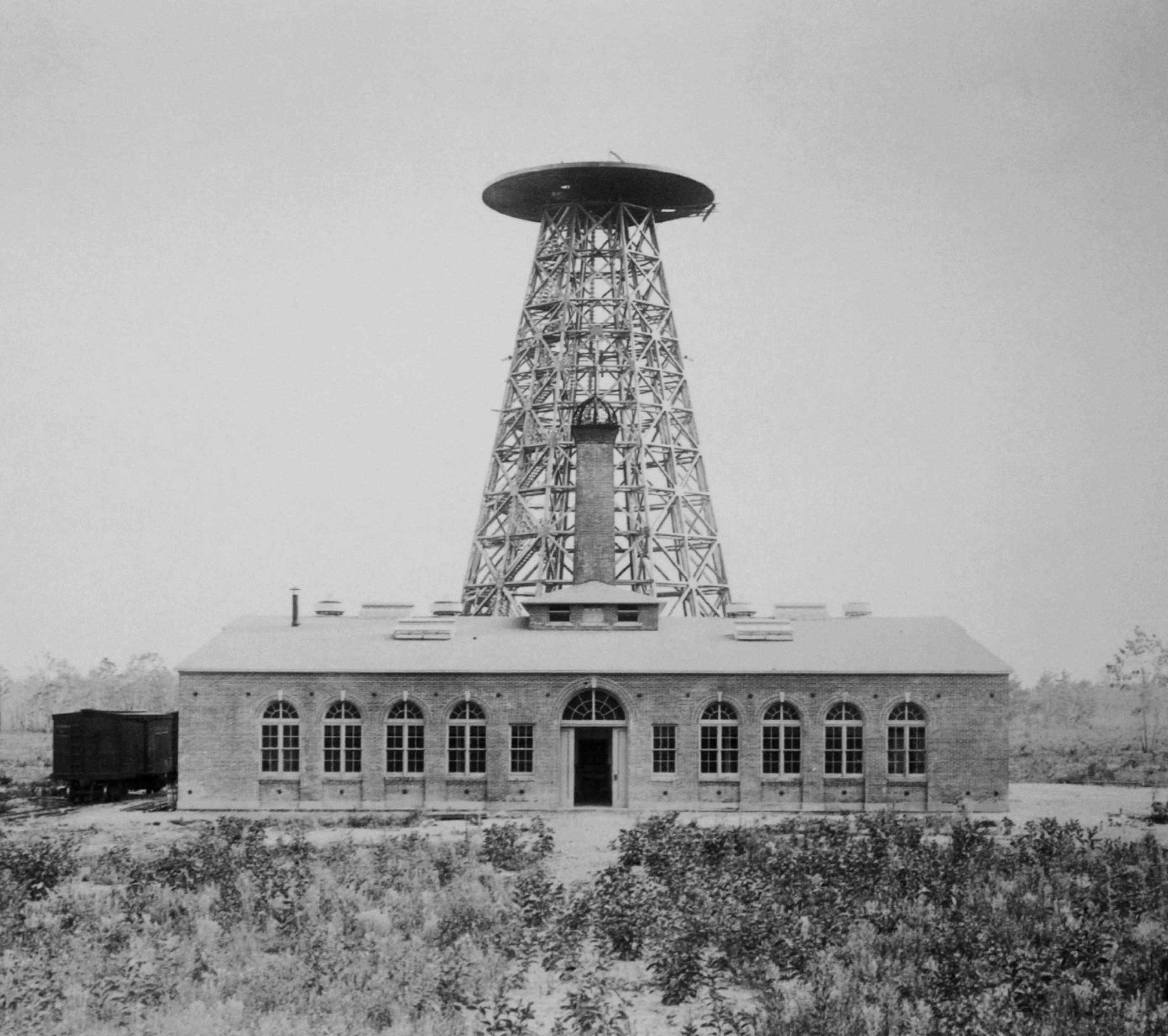 Tesla's Wardenclyffe plant on Long Island in partial stage of completion. Work on the 55-foot diameter cupola had not yet begun. Note what appears to be a coal car parked next to the building. From this facility, Tesla hoped to demonstrate wireless transmission of electrical energy to France. Circa 1902